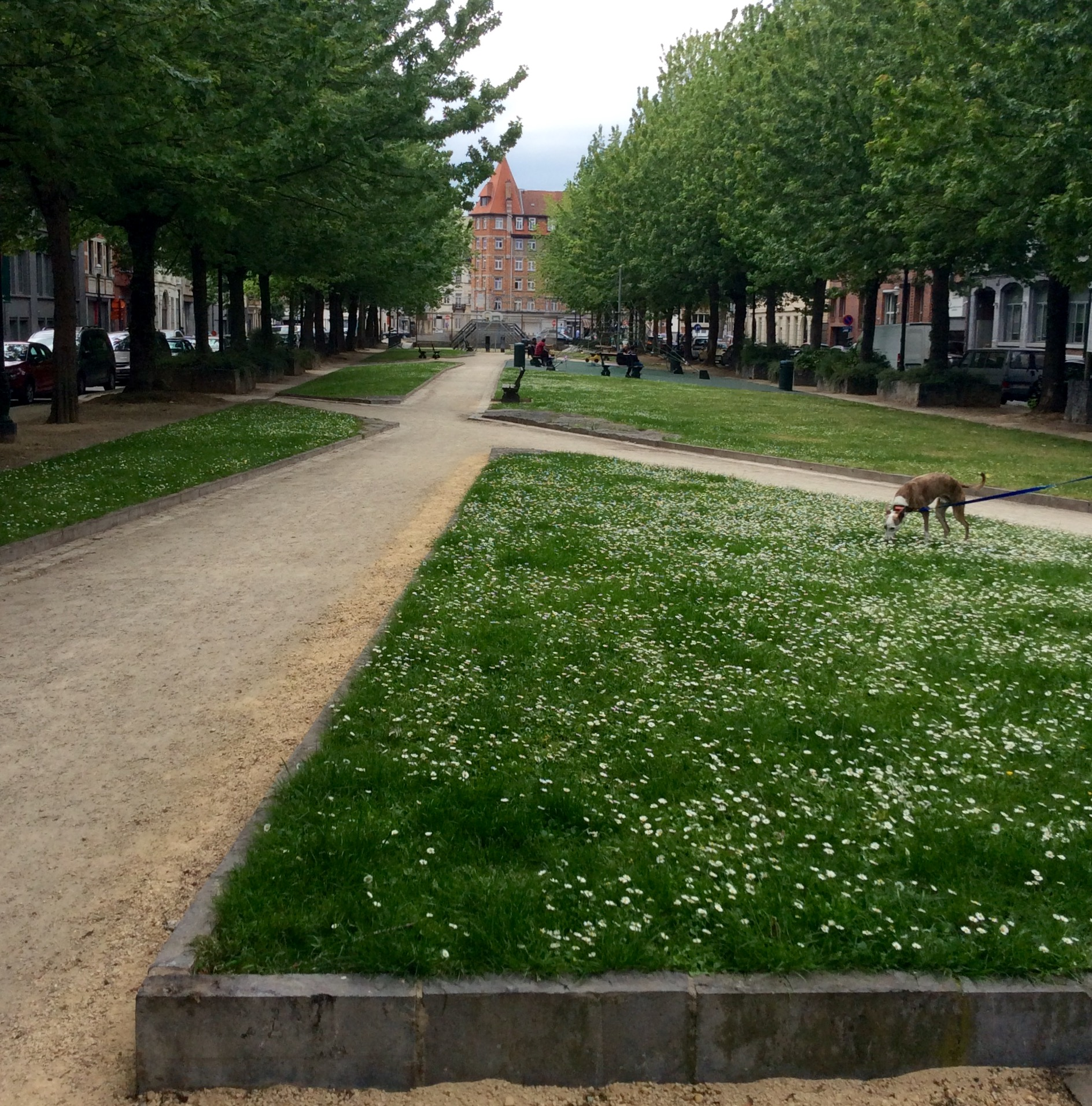 Square at Hooikaai/Quai au Foin, Brussels